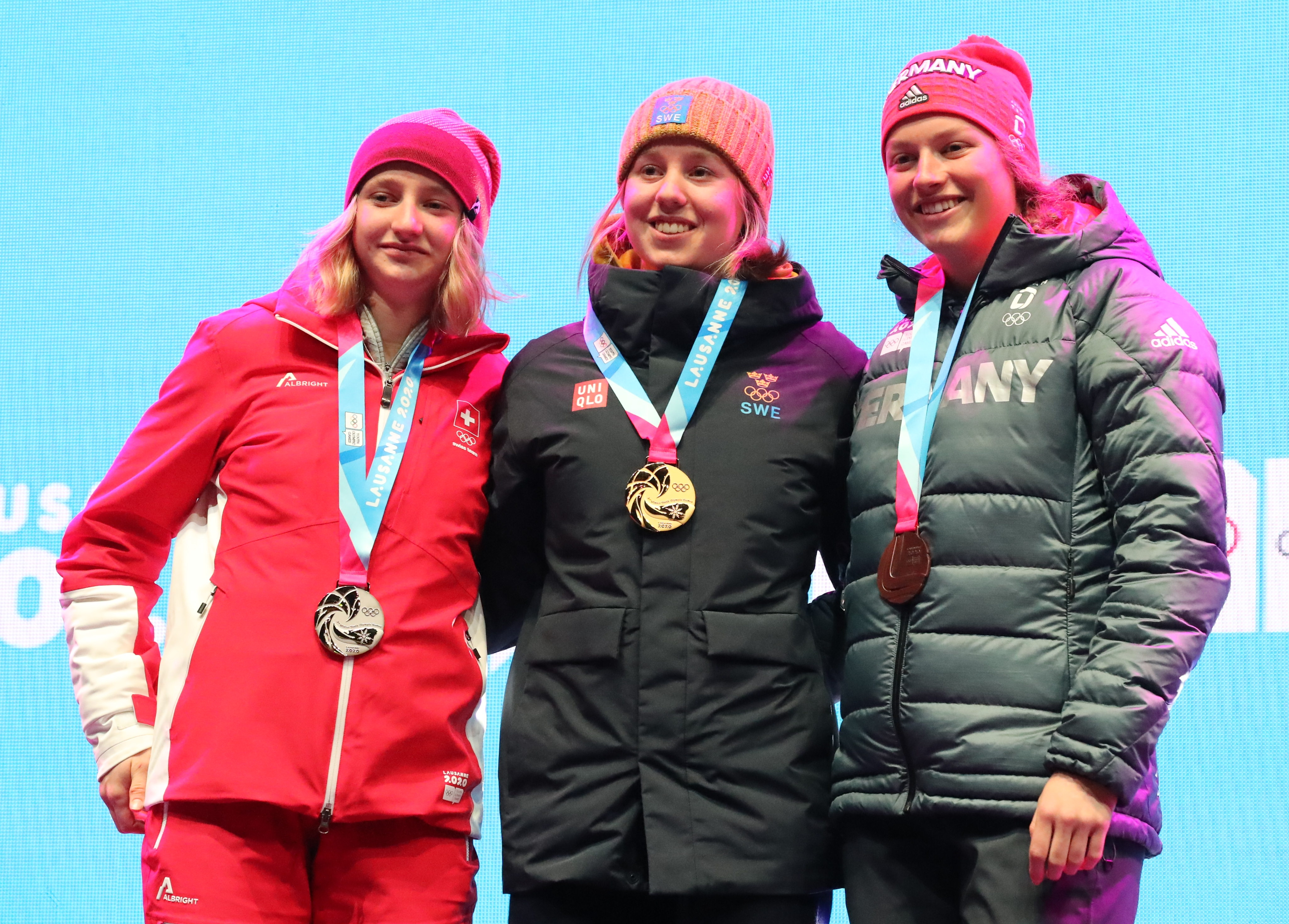 Medal Ceremony Day 5, 2020 Winter Youth Olympics in Lausanne